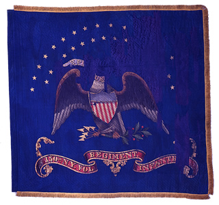 The 150th's regimental banner